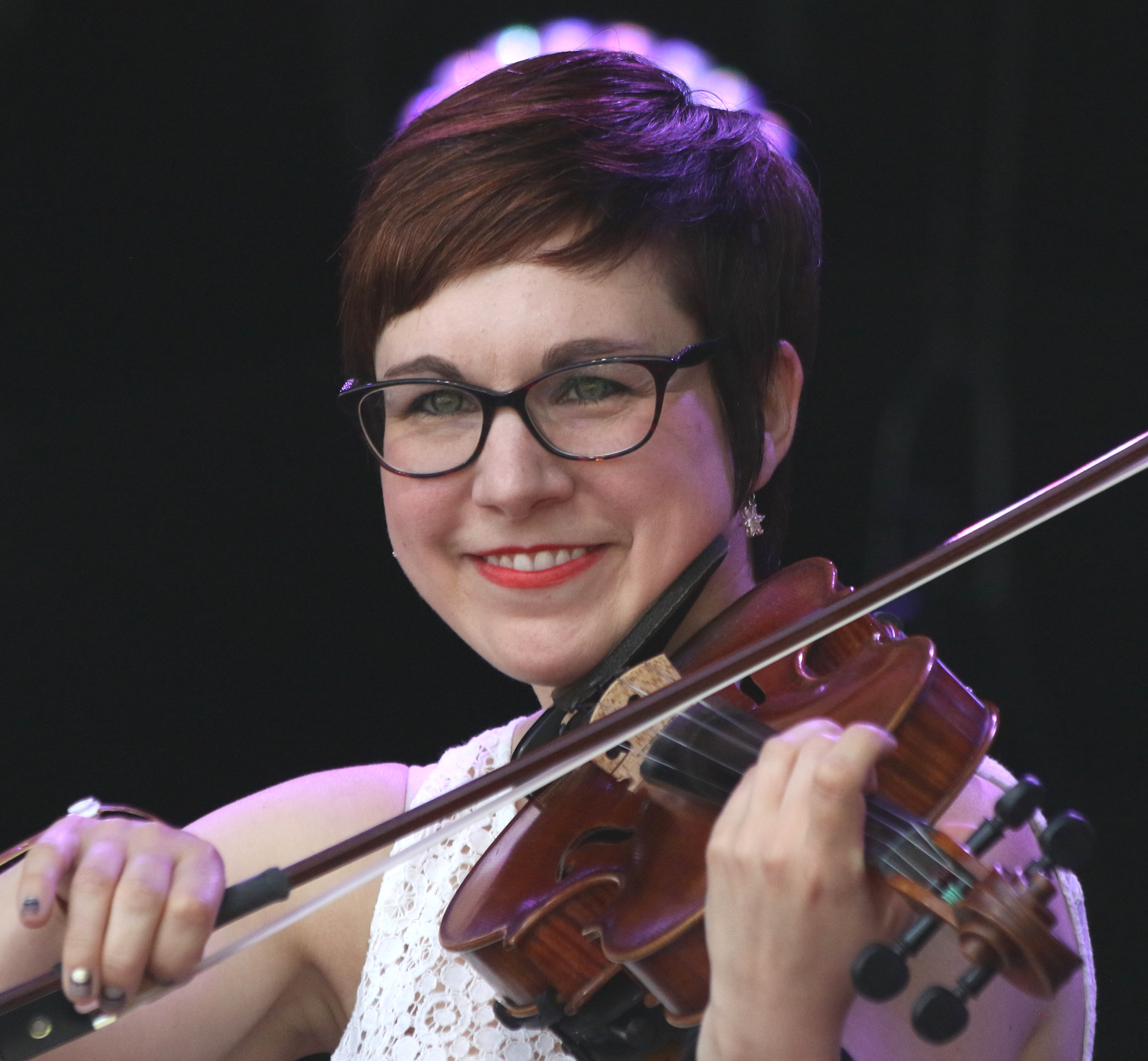 Canadian fiddler April Verch performing at the Doc and Merle Watson music festival in Wilkes County, NC, April, 2016.